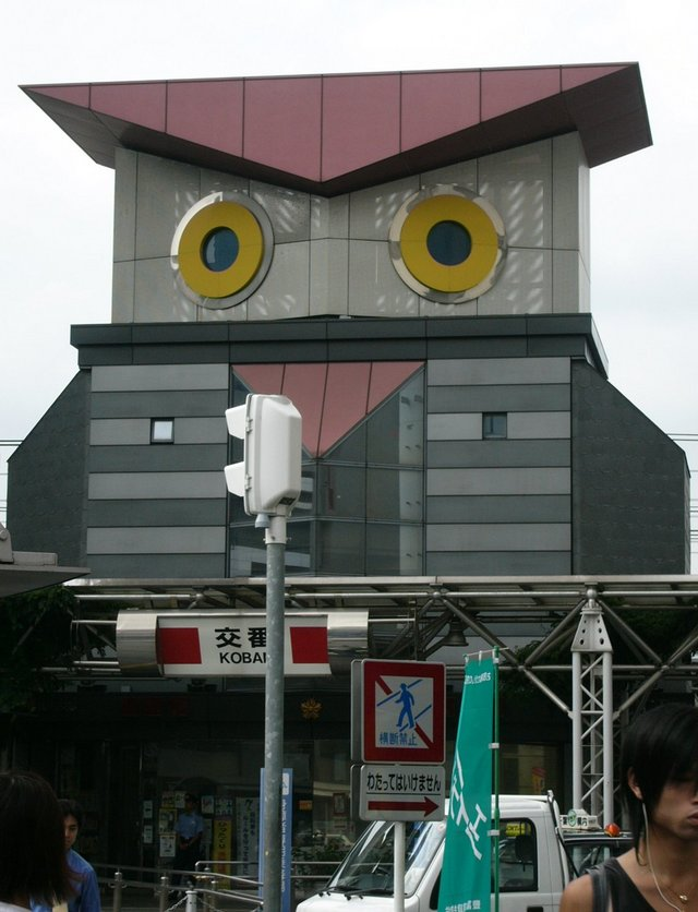 One quite funny police station (Koban) in front of the Main Station of Chiba in Japan.(千葉駅前交番)